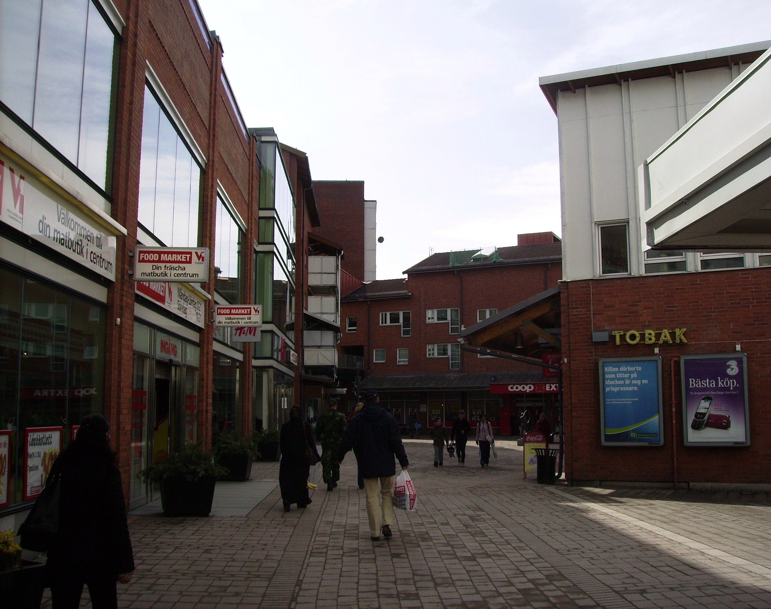 Picture of Huddinge centrum